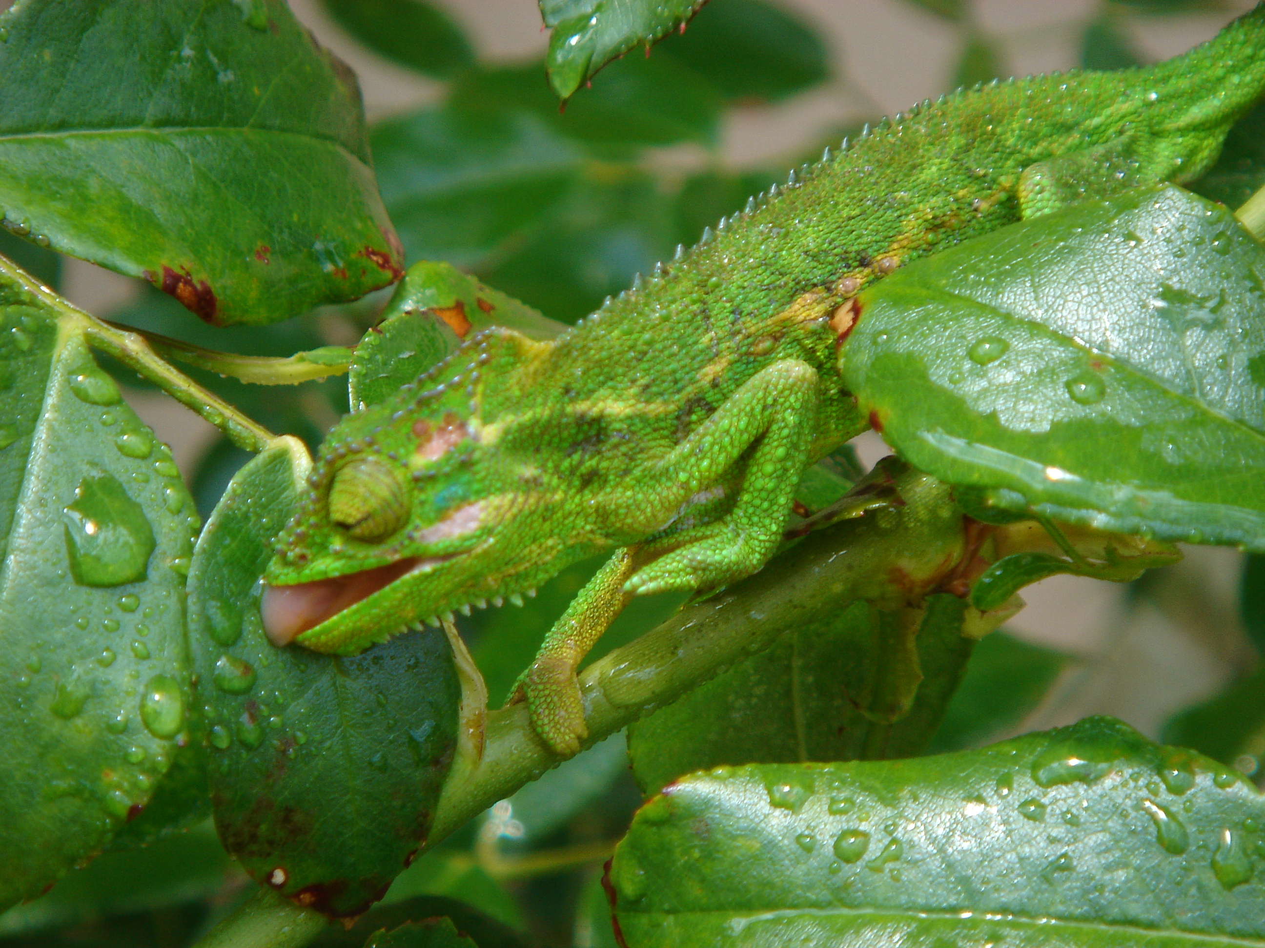 Cape Dwarf Chameleon drinking water droplets from our rose leaves in Observatory